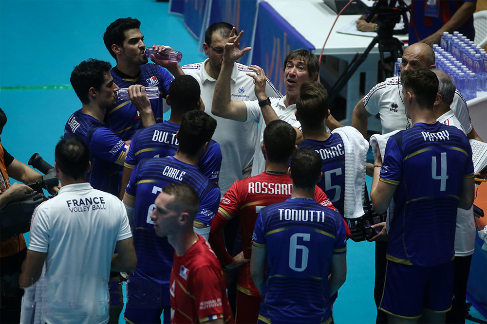 France National Volleyball Team during 2019 FIVB Volleyball Men's Nations League in Ardabil, Iran.